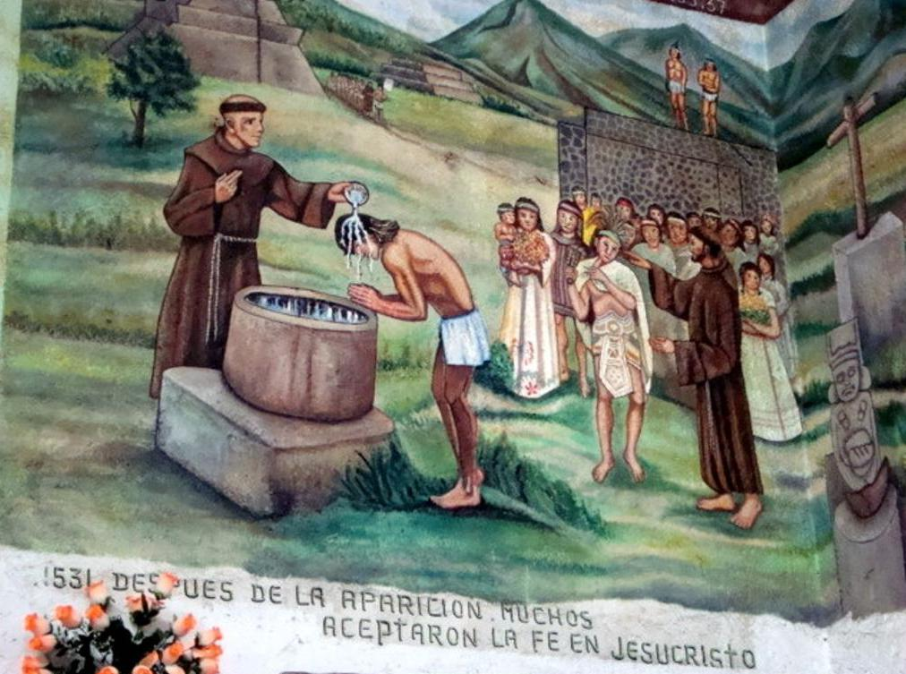 Mural in the Our Lady of Guadalupe Church, Calle 69 n53 -Av.6, Venustiano Carranza, Federal District, Mexico